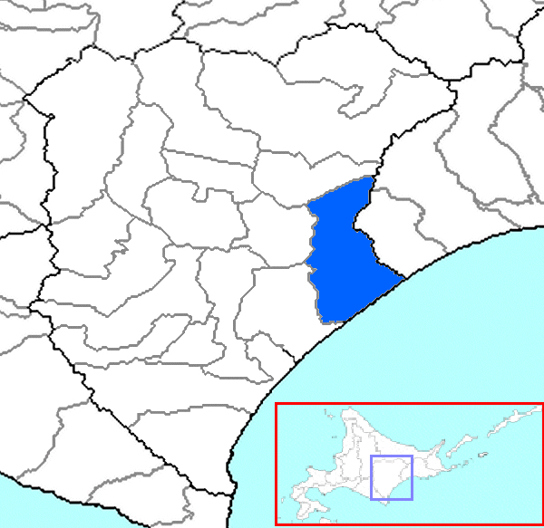 The location of Urahoro in Tokachi Subprefecture, Hokkaido Prefecture, Japan.